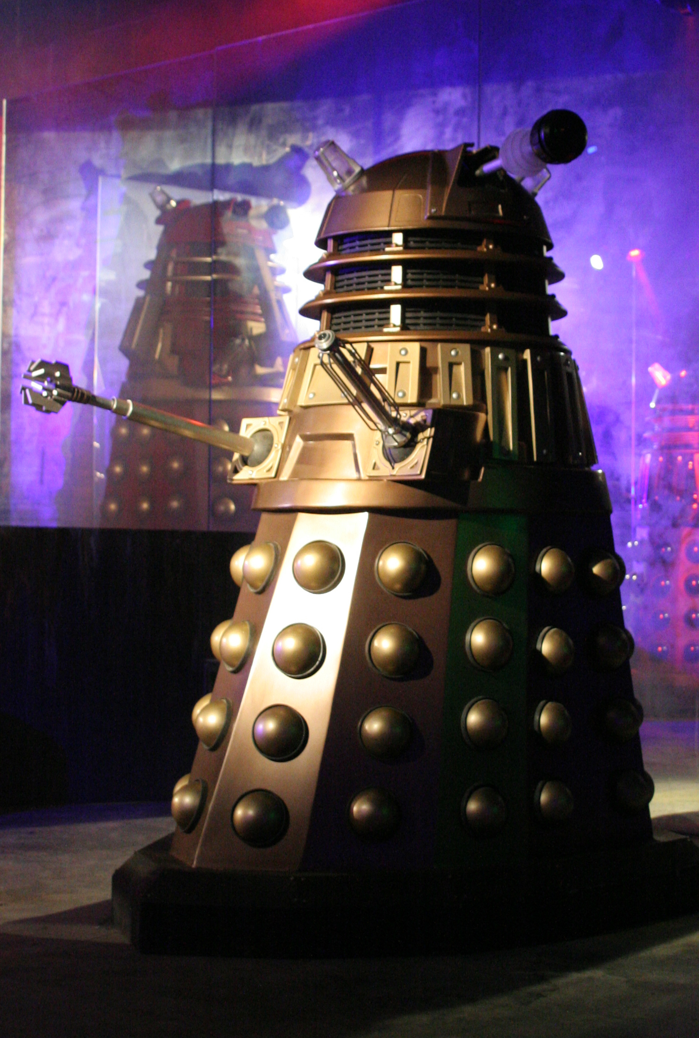 Doctor Who Experience